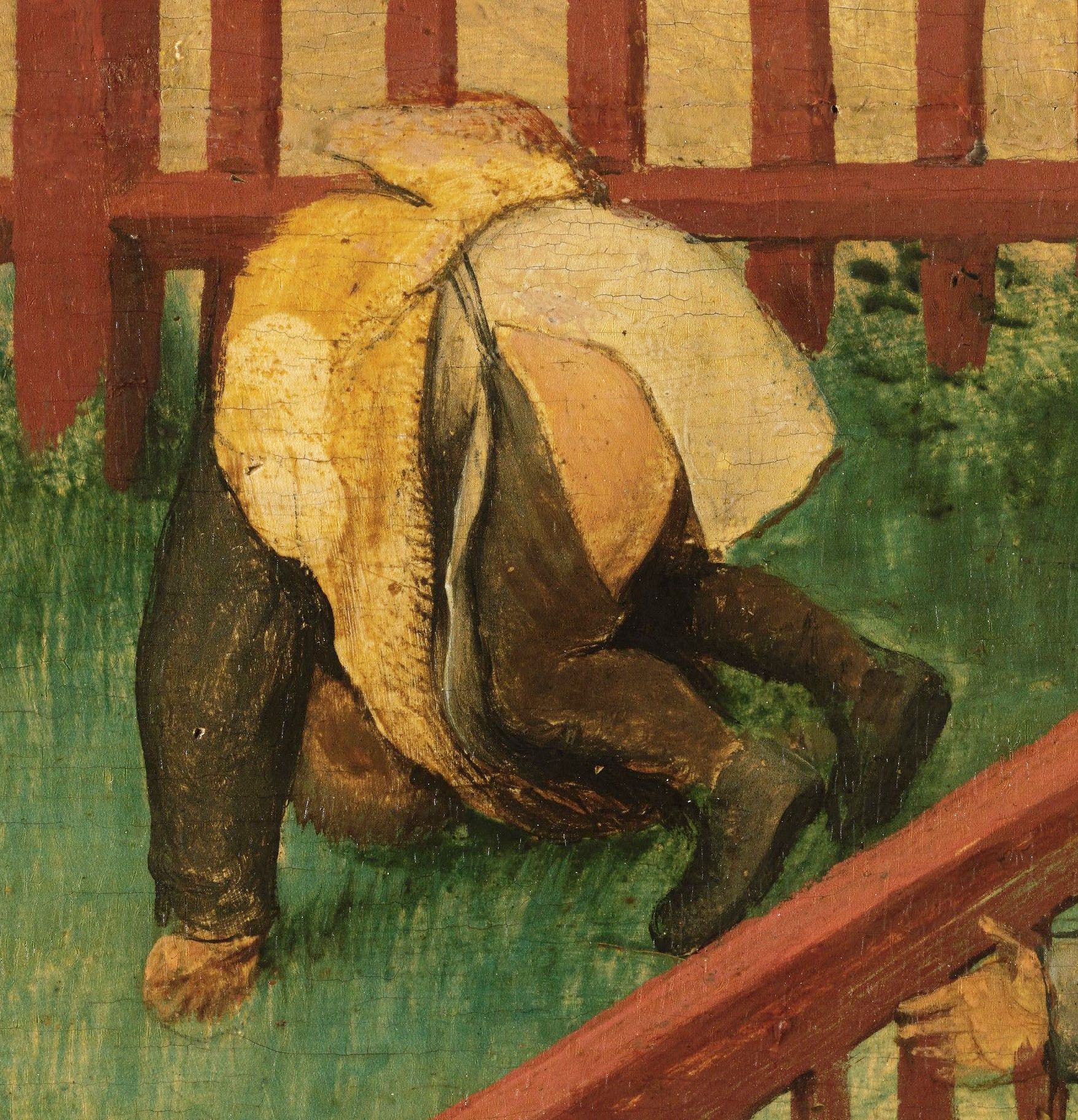 Detail from Children's Games by Pieter Bruegel the Elder